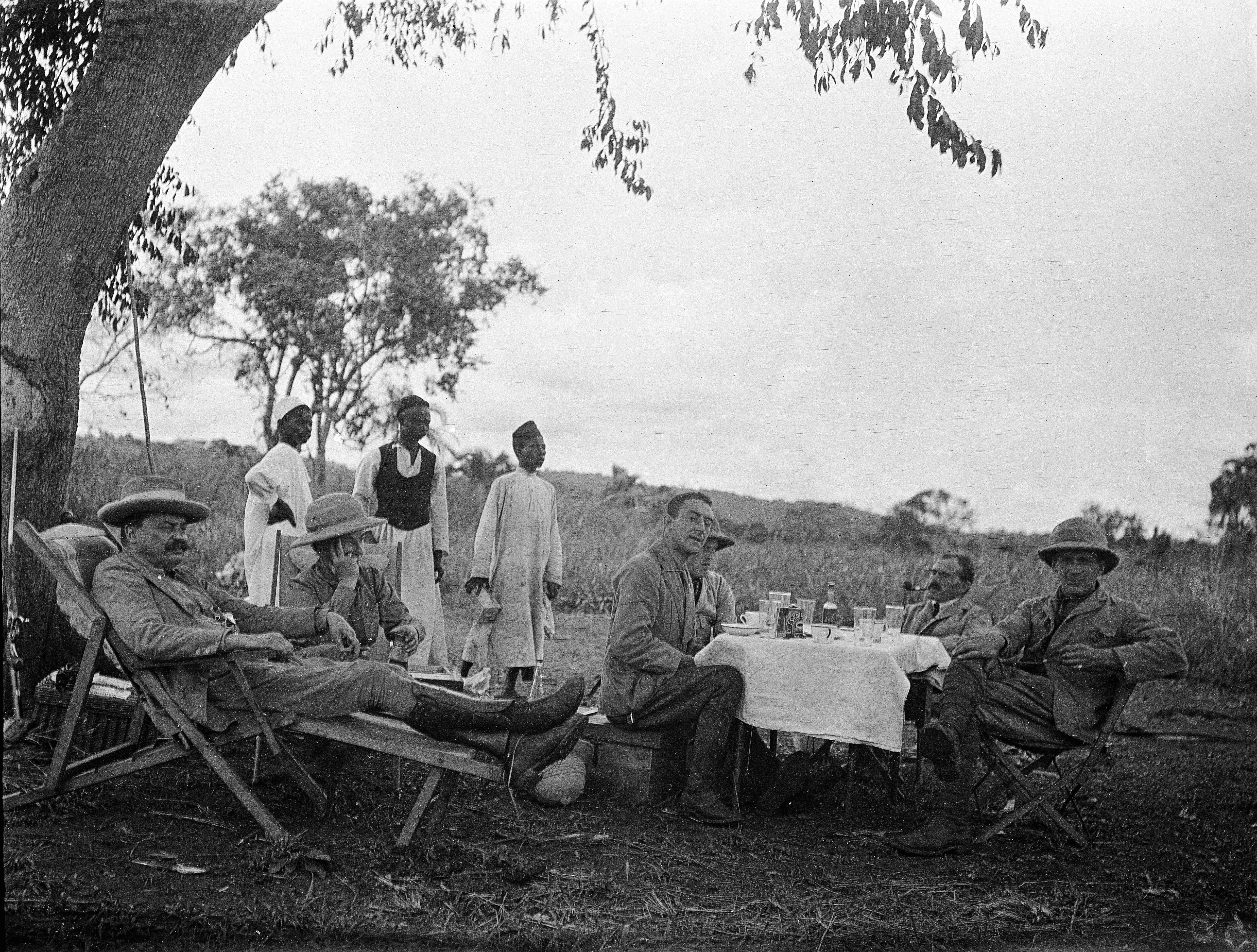 10 photographs taken while serving on Sleeping Sickness Commission, Uganda and Nyasaland, 1908 - 1913. Fly collecting experiments etc. (?in Nyasaland, 1911) Archives & Manuscripts